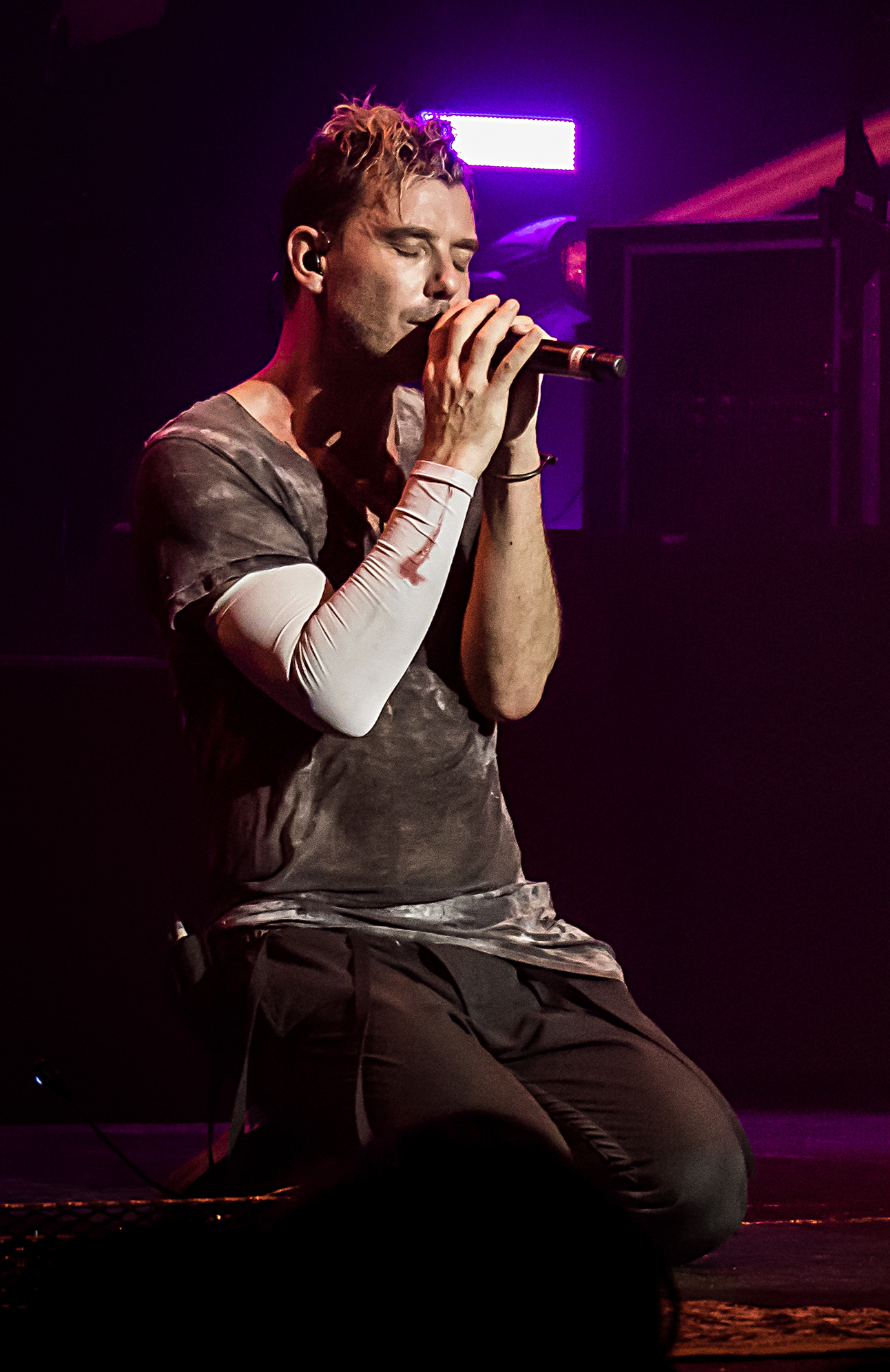 Bush at The Wiltern